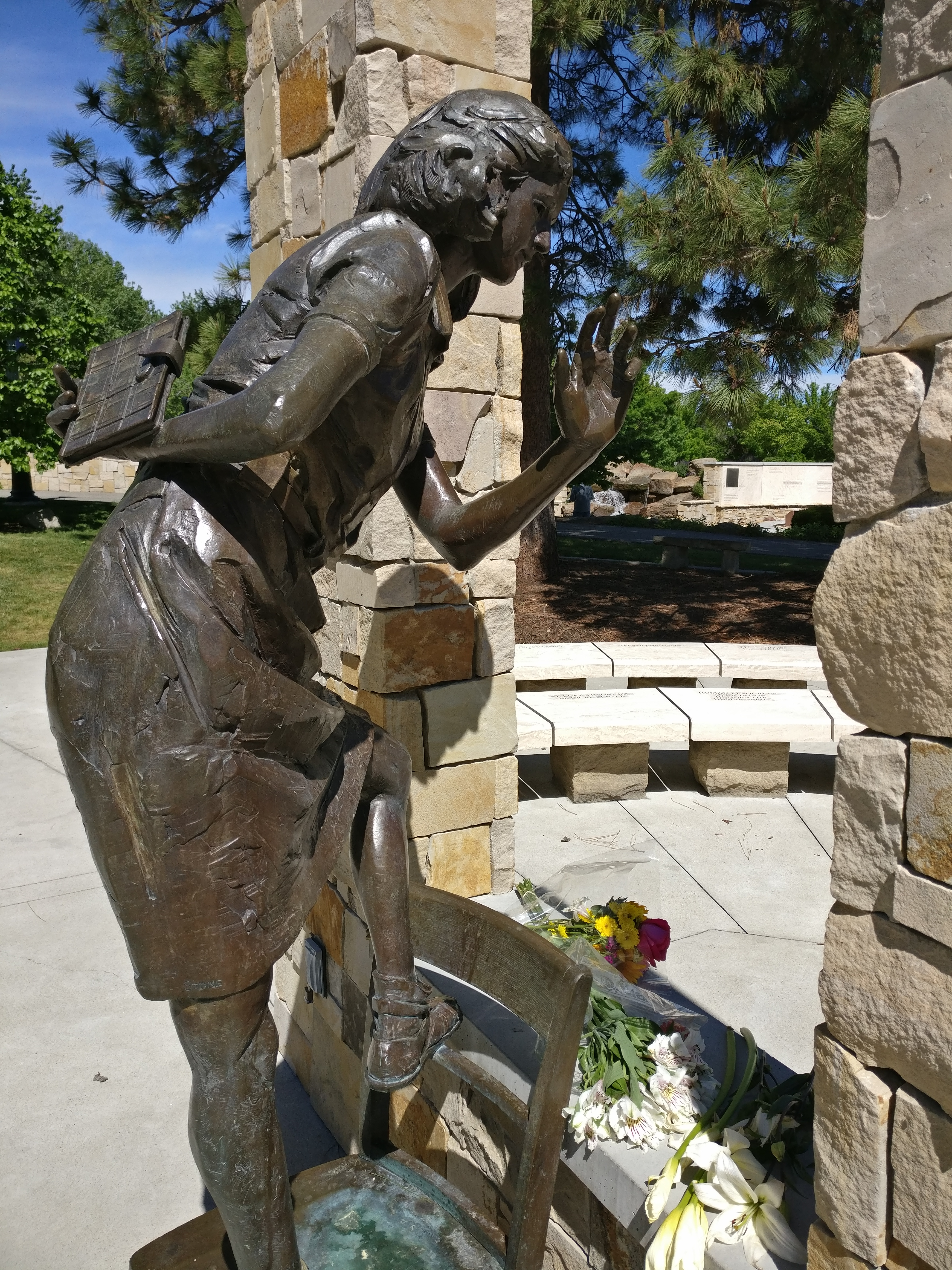 A quarter rear view of the centotaph of Anne Frank at the Anne Frank Human Rights Memorial in Boise, Idaho showing her having drawn an invisible curtain at her family's attic hiding place; she holds her famous diary behind herself. The flowers were left in homage after the site was vandalized in May 2017.